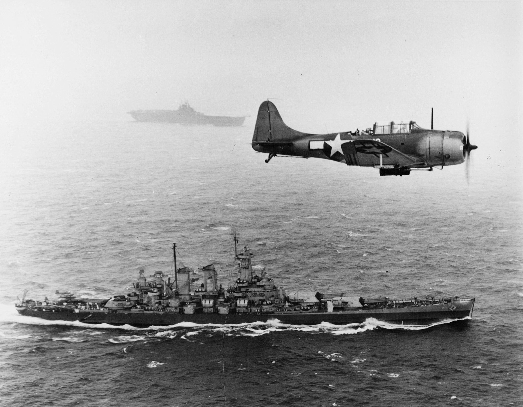 A U.S. Navy Douglas SBD-5 Dauntless of bombing squadron VB-16 flies an antisubmarine patrol low over the battleship USS Washington (BB-56) en route to the invasion of the Gilbert Islands, 12 November 1943. The ship in the background is USS Lexington (CV-16), the aircraft's home carrier. Note the depth charge below the SBD.